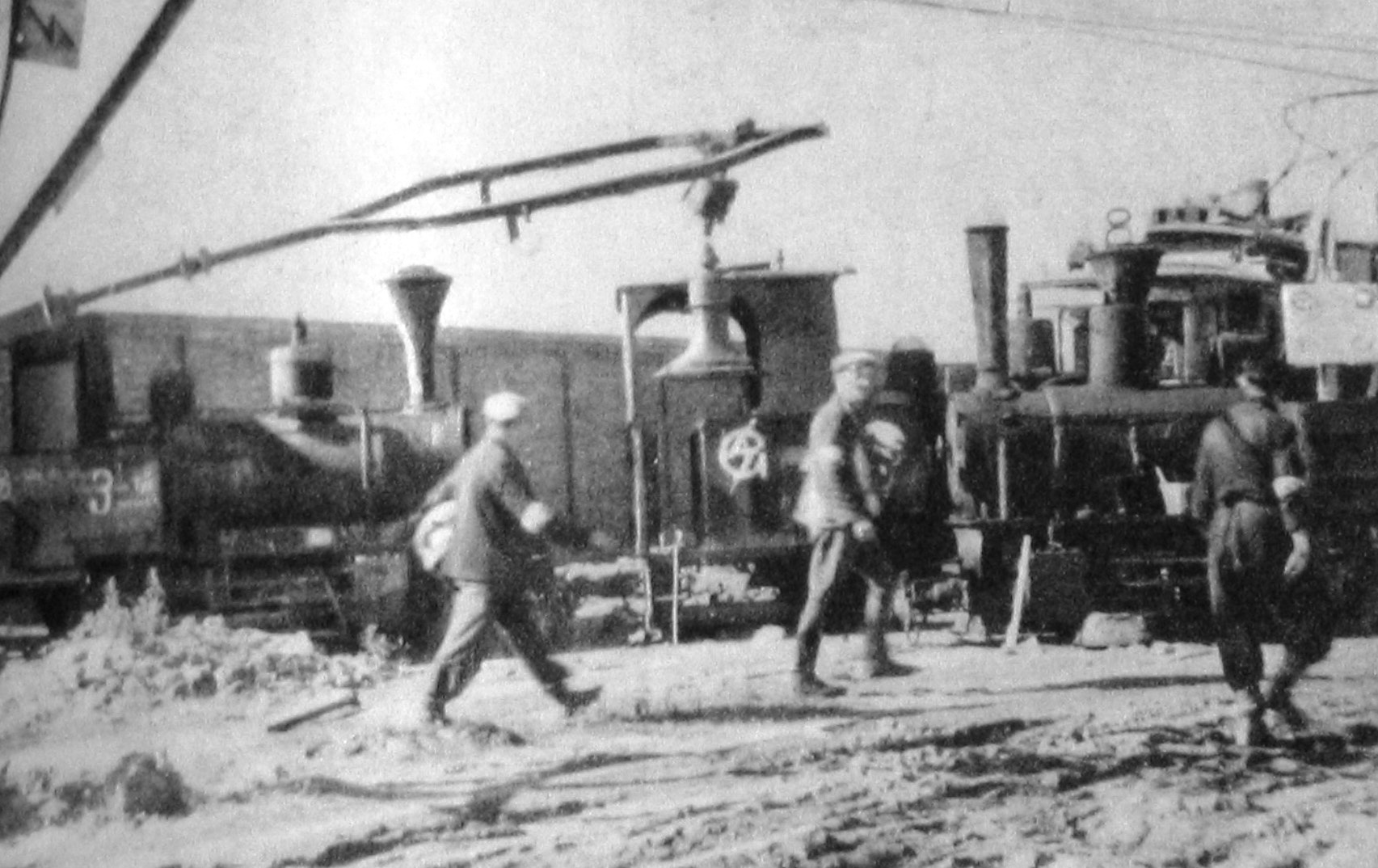 Warsaw Uprising: Soldiers from "Radosława" Regiment retreating from Powązki into ex-Ghetto district while passing a barricade across Okopowa Street near Pfeiffer Factory (Okopowa 58/72). Barricade is build from locomotives used to remove rubble from Warsaw Ghetto. Behind the barricade a wall of Jewish cemetery is visible.